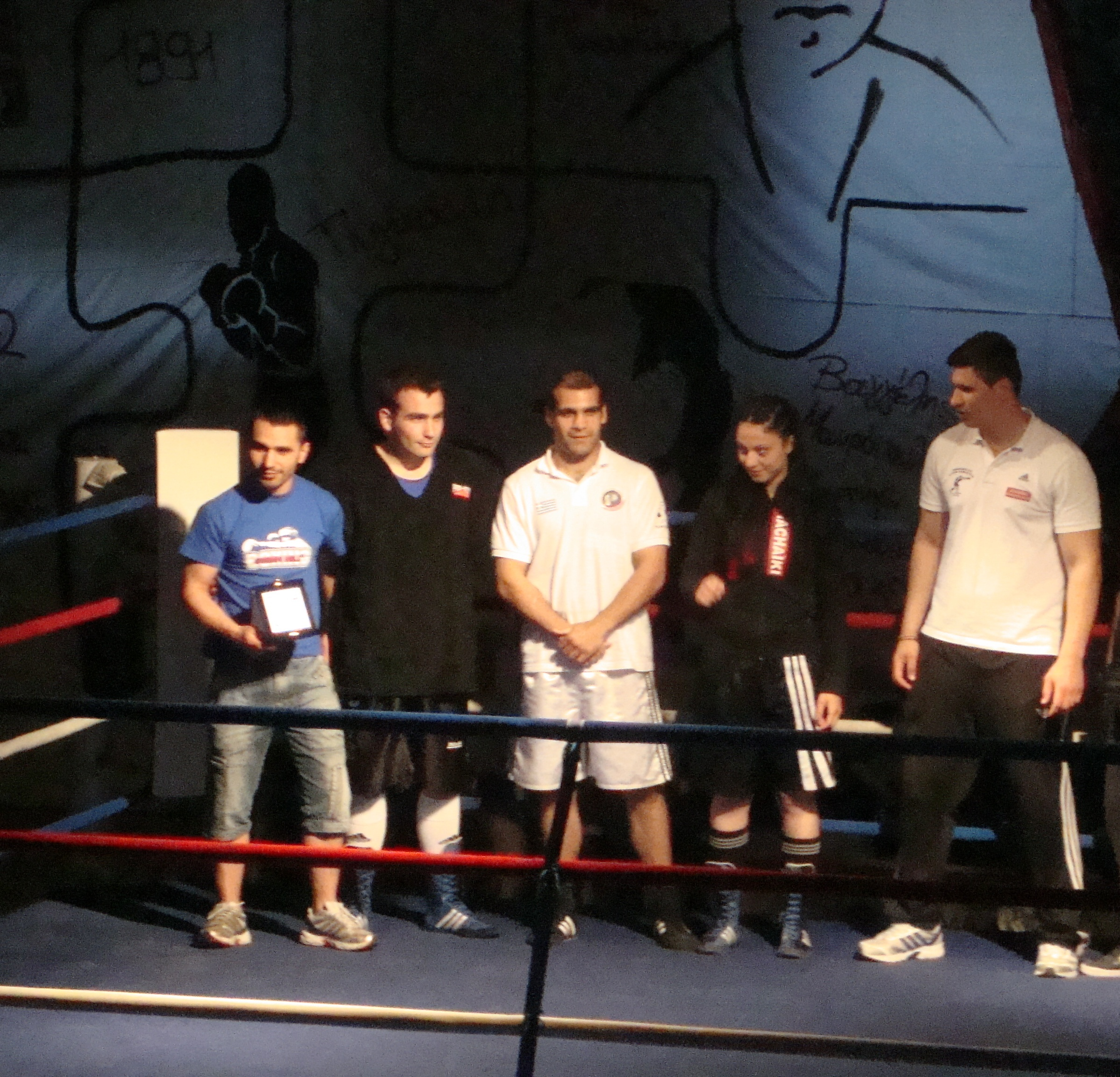 4th Boxing Gala "E. Mavropoulos" 2011 Panachaiki Greek Boxing Men's Champion 2008 & 2009 Kleanthis, Kavadias, Beis, (Athanasopoulou), Georgopoulos